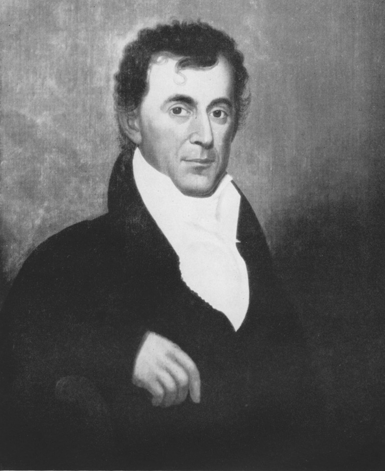 Littleton Waller Tazewell (1774-1860) was a U.S. Representative, U.S. Senator and the 26th Governor of Virginia.